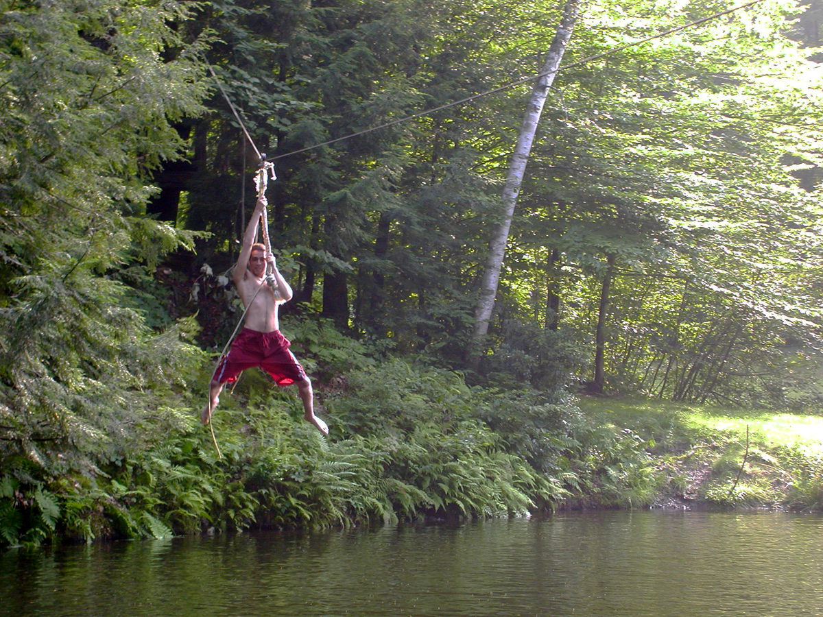 This is a picture of myself on a zip line taken by my friend. Both of us give full consent for this image to be used by and for wikipedia in any manner the site allows.